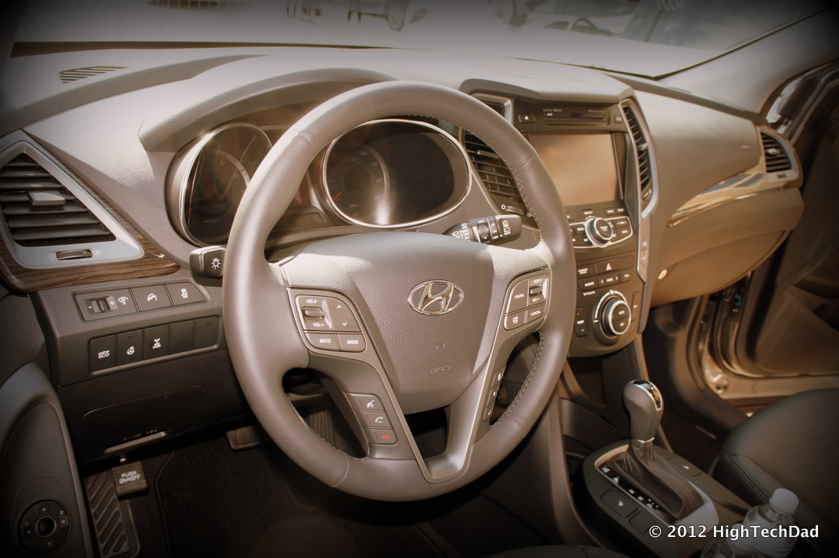 Photos from a special media, press & blogger event held in Park City, UT announcing the new 2013 Hyundai Santa Fe automobile. More information can be found at